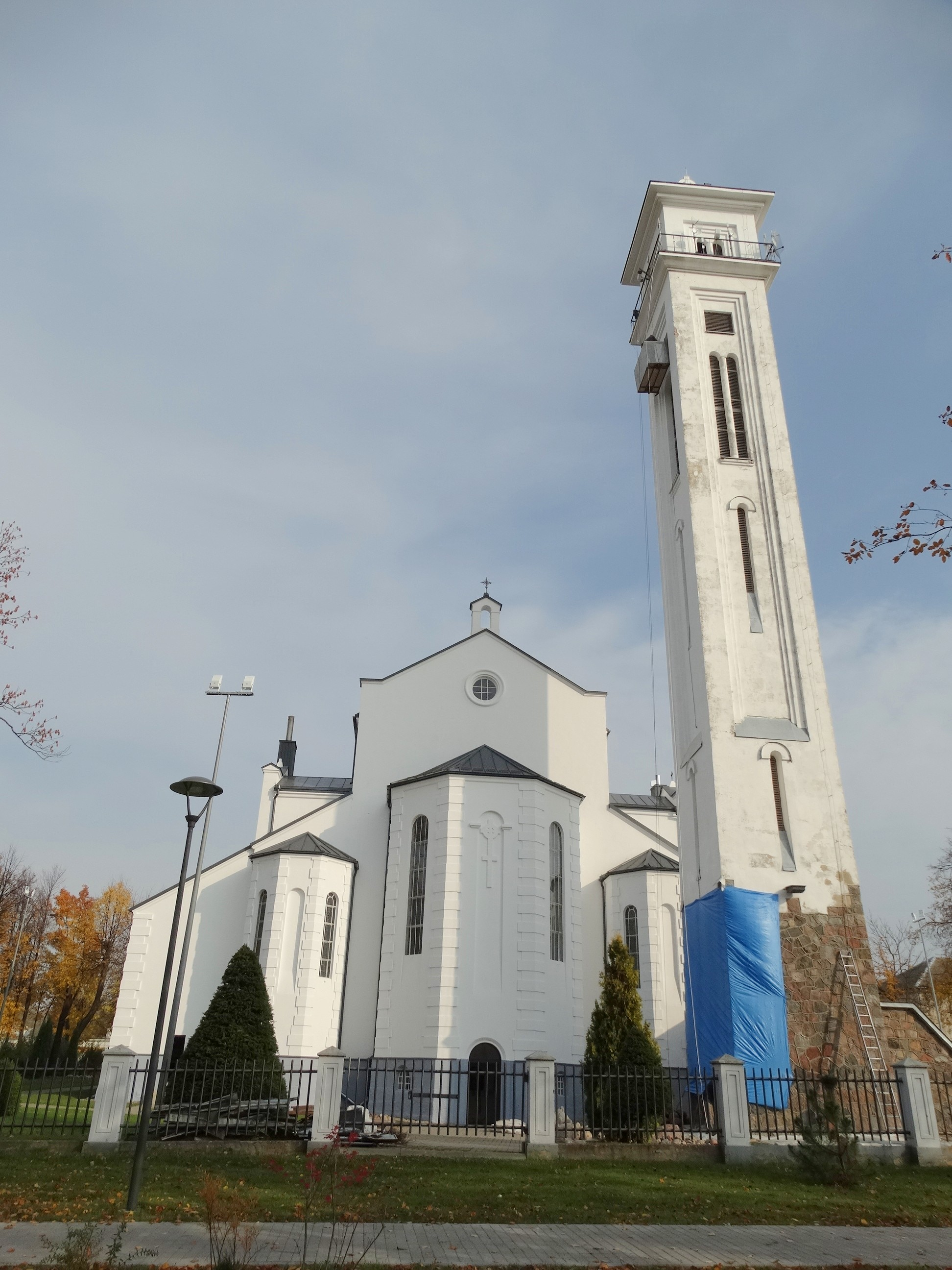 Roman Catholic Church, Kybartai, Lithuania